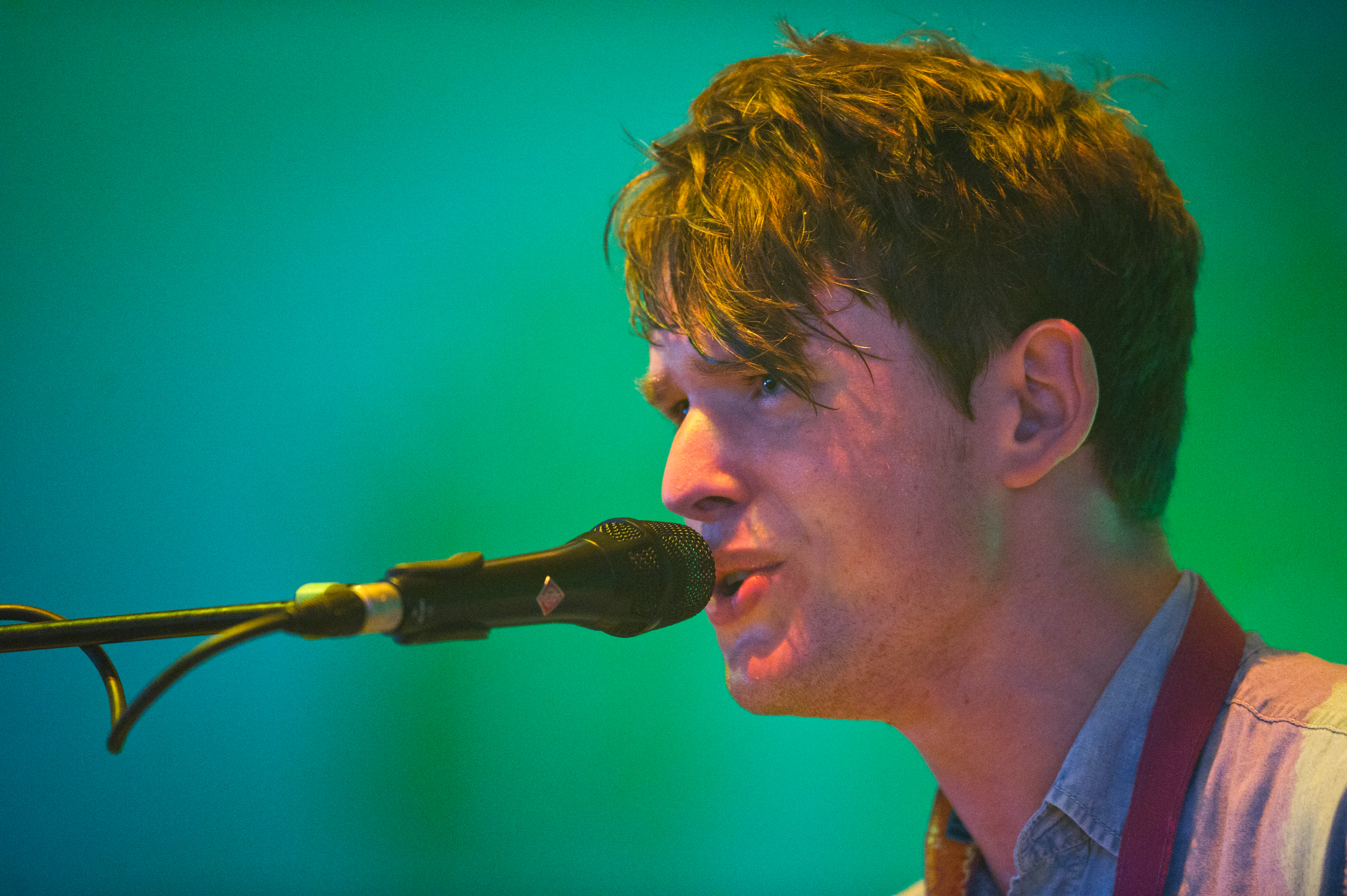 James Blake performing at Roskilde Festival 2011.